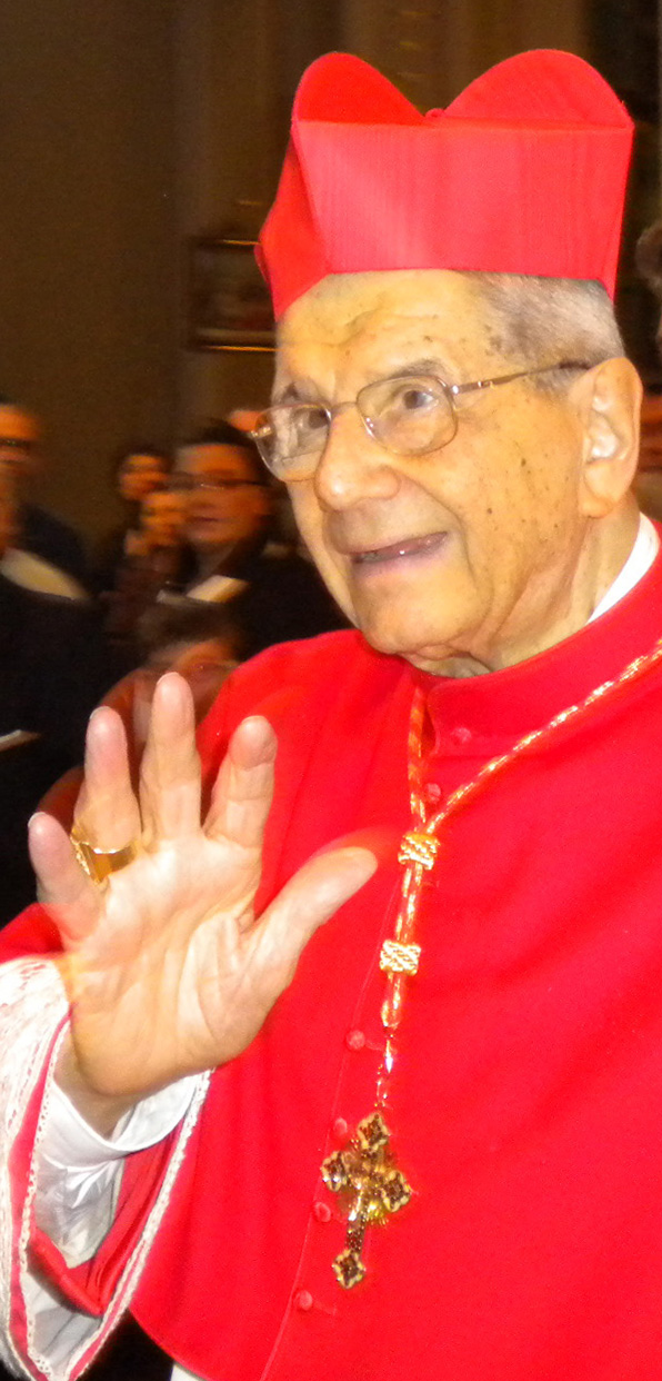 Cardinal Giovanni Coppa arriving in the Church of Cavenago d'Adda, Italy